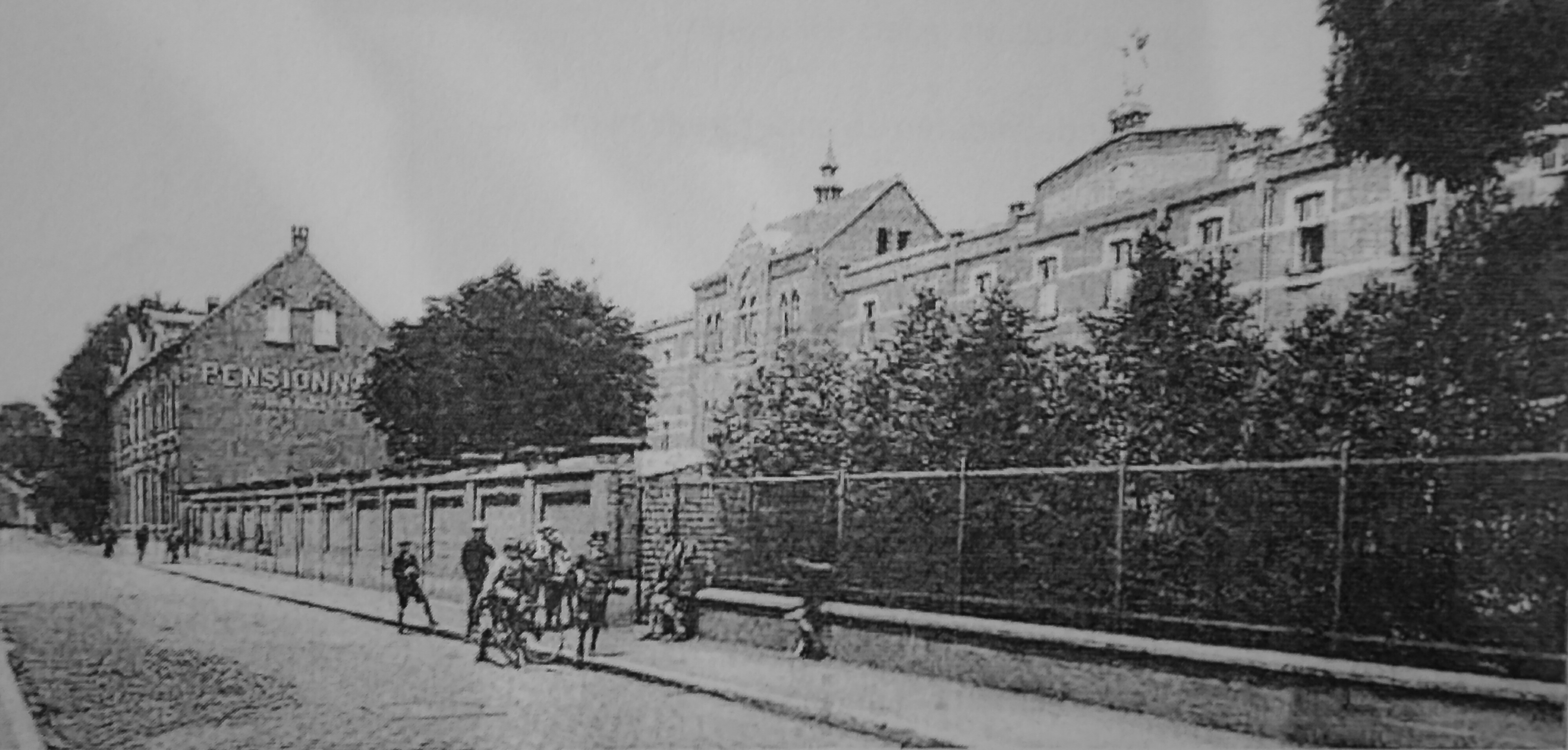 Old picture from the Sint-Gabriëlcollege in Boechout (Belgium). The author is unknown and the picture is older than 70 years.